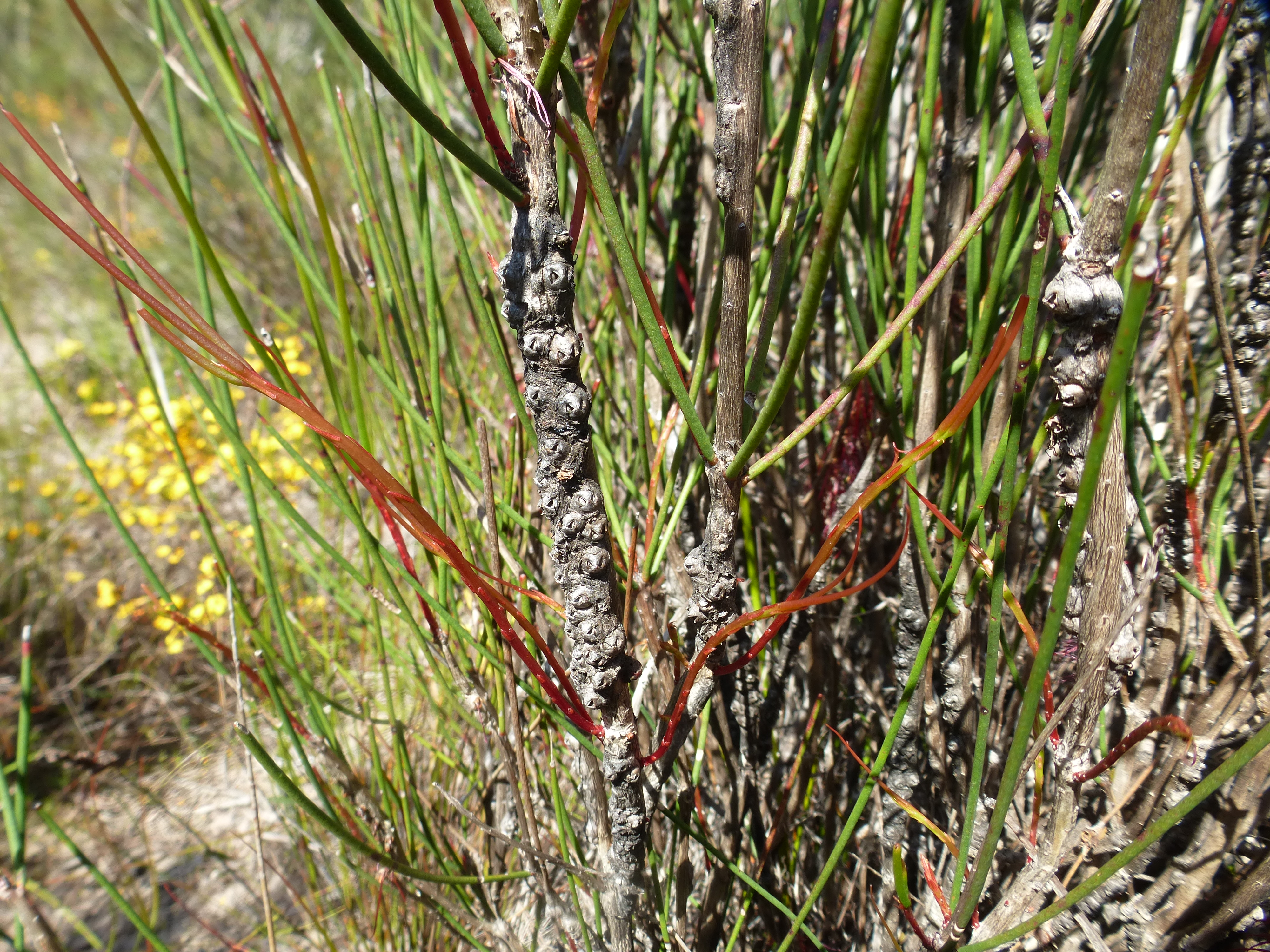 Calothamnus longissimus growing in Manea Park, Bunbury